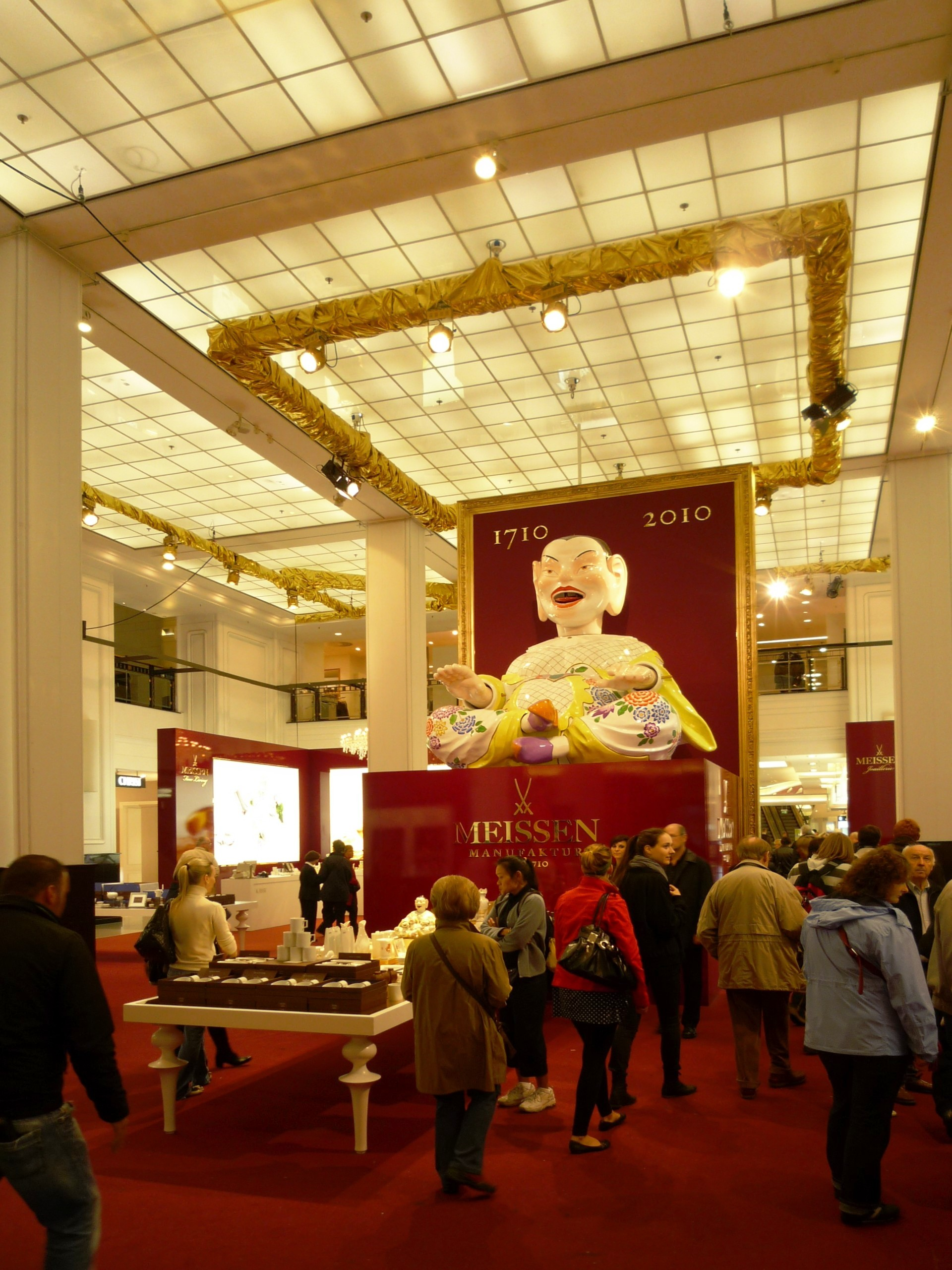 The warehouse "KaDeWe" (Kaufhaus des Westens) in Berlin-Schöneberg. Special exhibition.